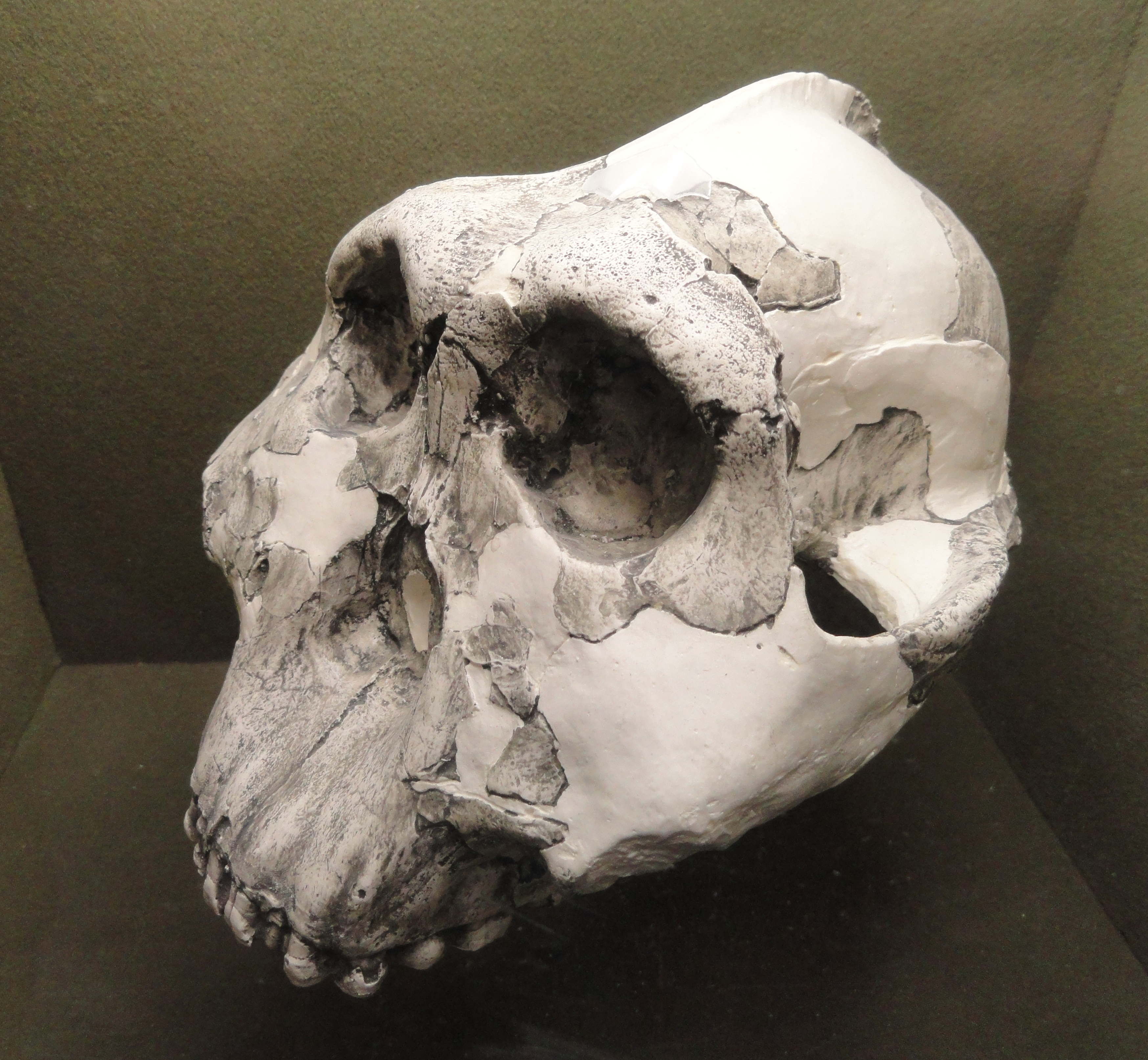 Exhibit in the Springfield Science Museum, 21 Edwards Street, Springfield, Massachusetts, USA. The museum permitted photography without restriction.